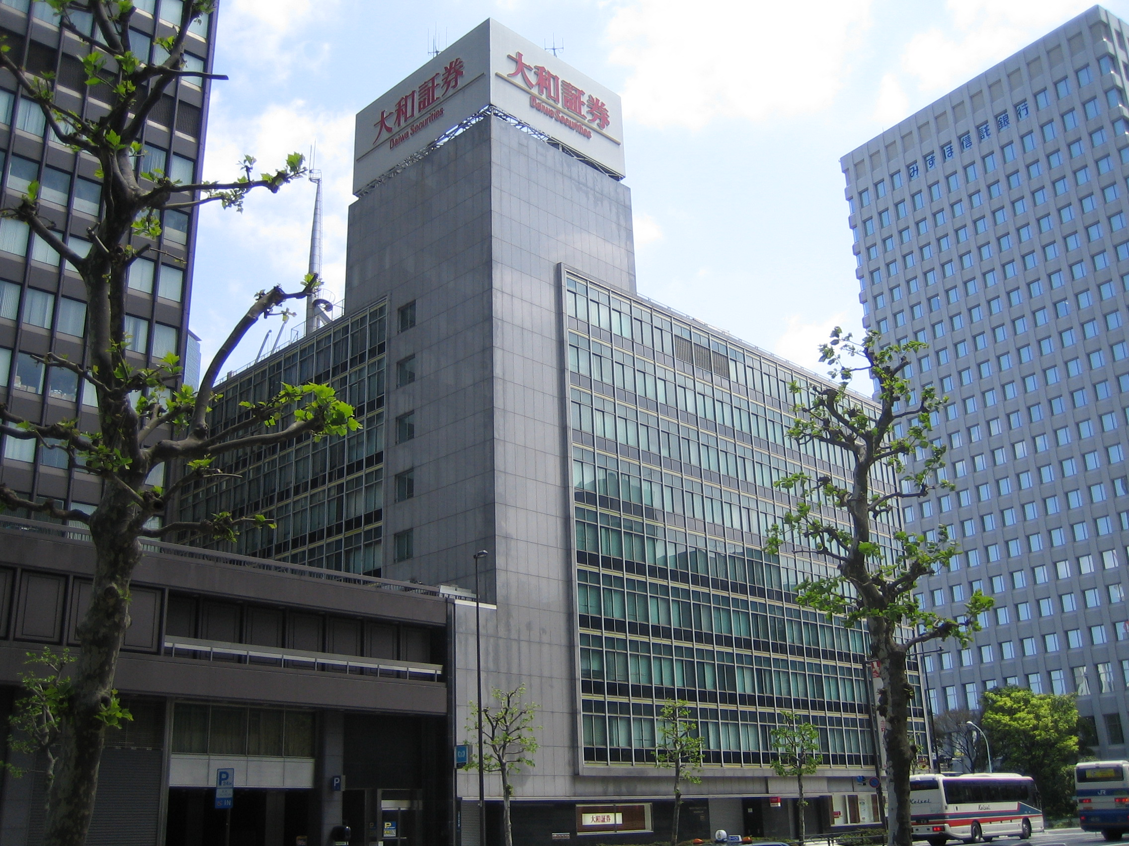 Former headquarters of Daiwa Securities Group Inc. (大和証券グループ本社), at Otemachi, Chiyoda, Tokyo, Japan